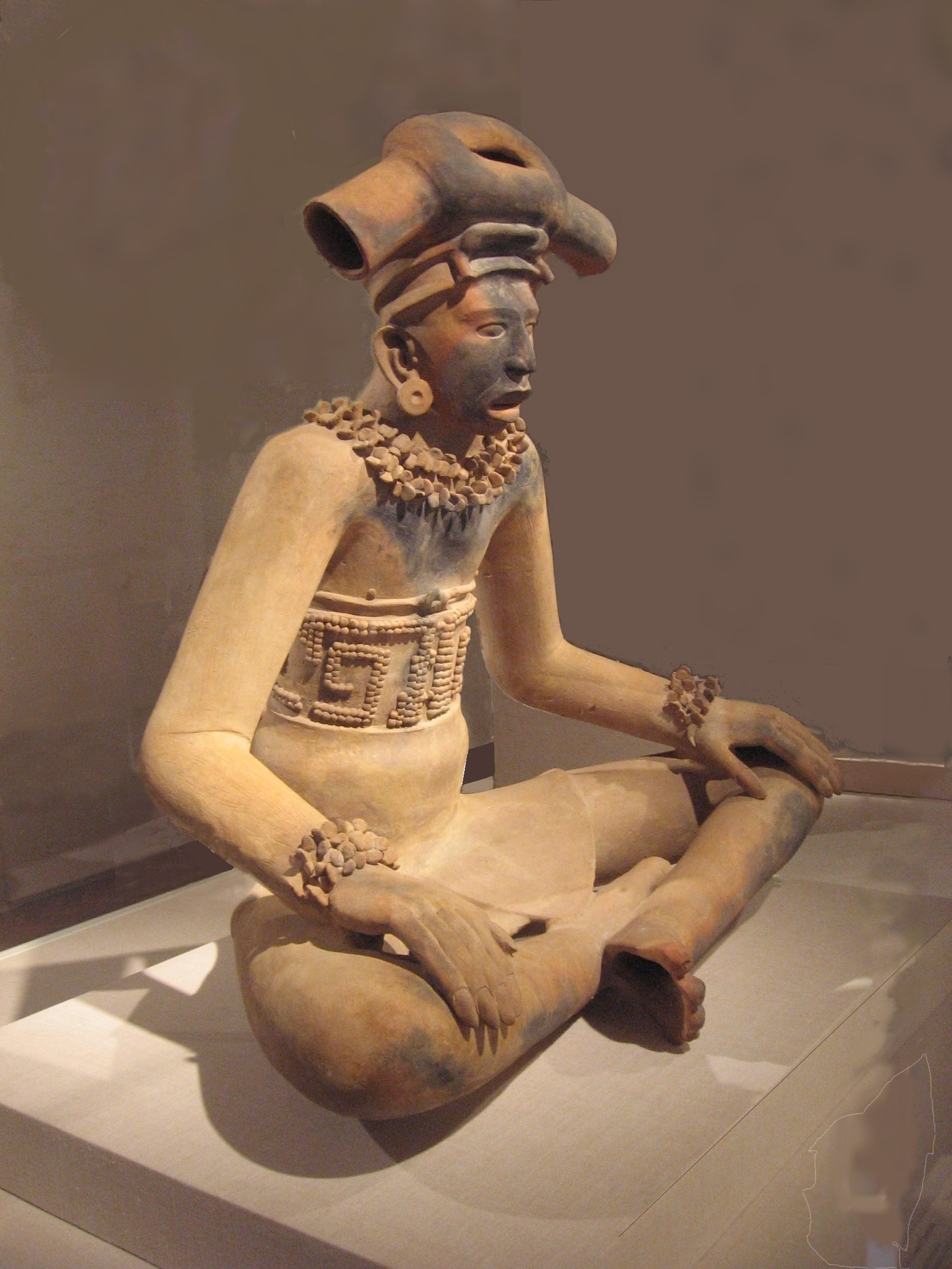 Figure of a seated leader. "This naturalistic figure ranks among the finest works of the Remojadas sculptural tradition. The artist modeled the face of a youthful chieftain as an idealized type, yet there is also a sense of individual portraiture. Sitting cross-legged, with arms extended to the knees, the young ruler’s body conveys tension. He is elegantly dressed with an elaborate turban, belt and skirt. The jewelry adorning his wrists and neck represents flowers, while the embroidery of the belt likely signals his rank and status." [1]